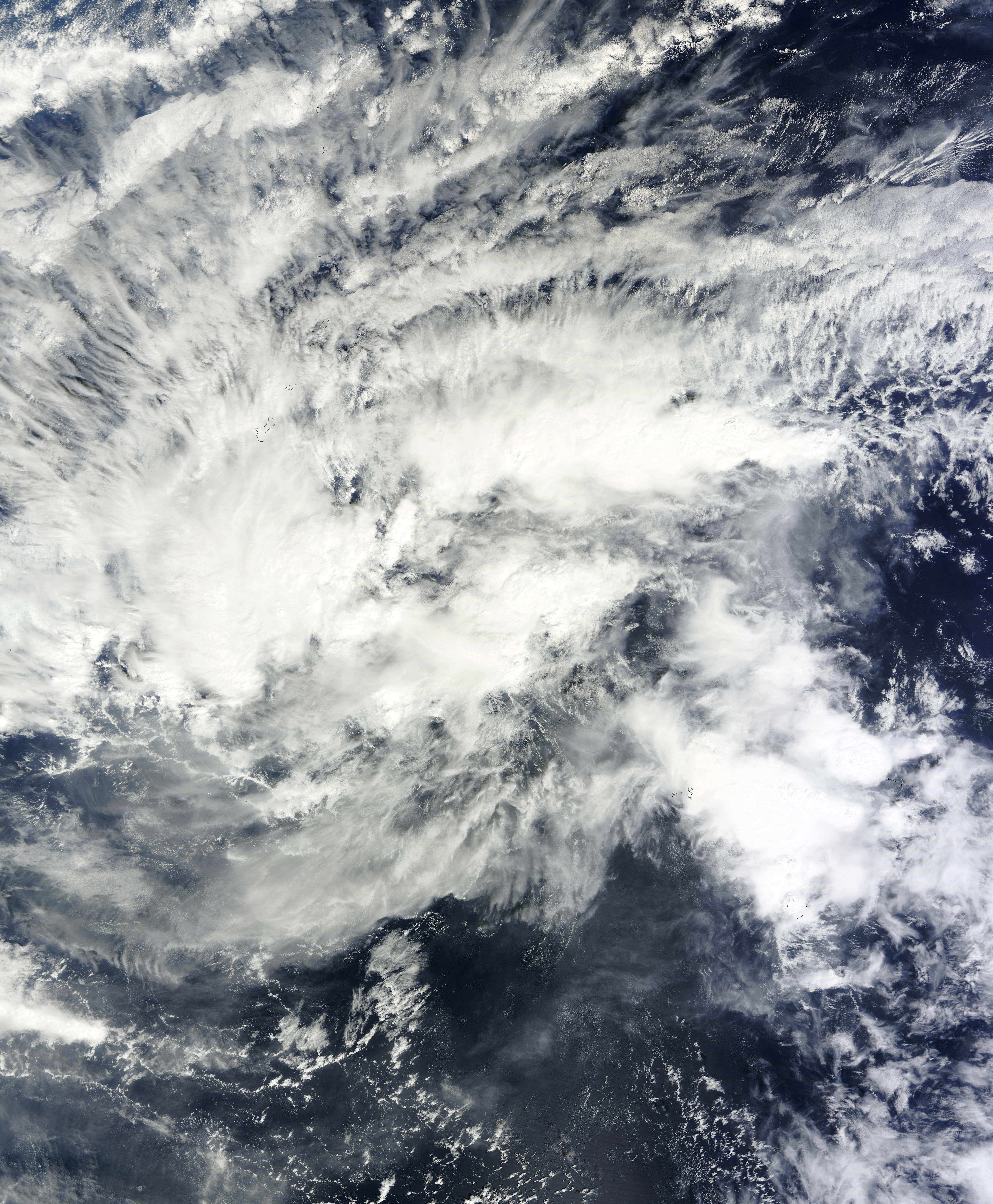 Tropical Disturbance 92W Invest on January 12, 2015, gaining more strength over the Caroline Islands